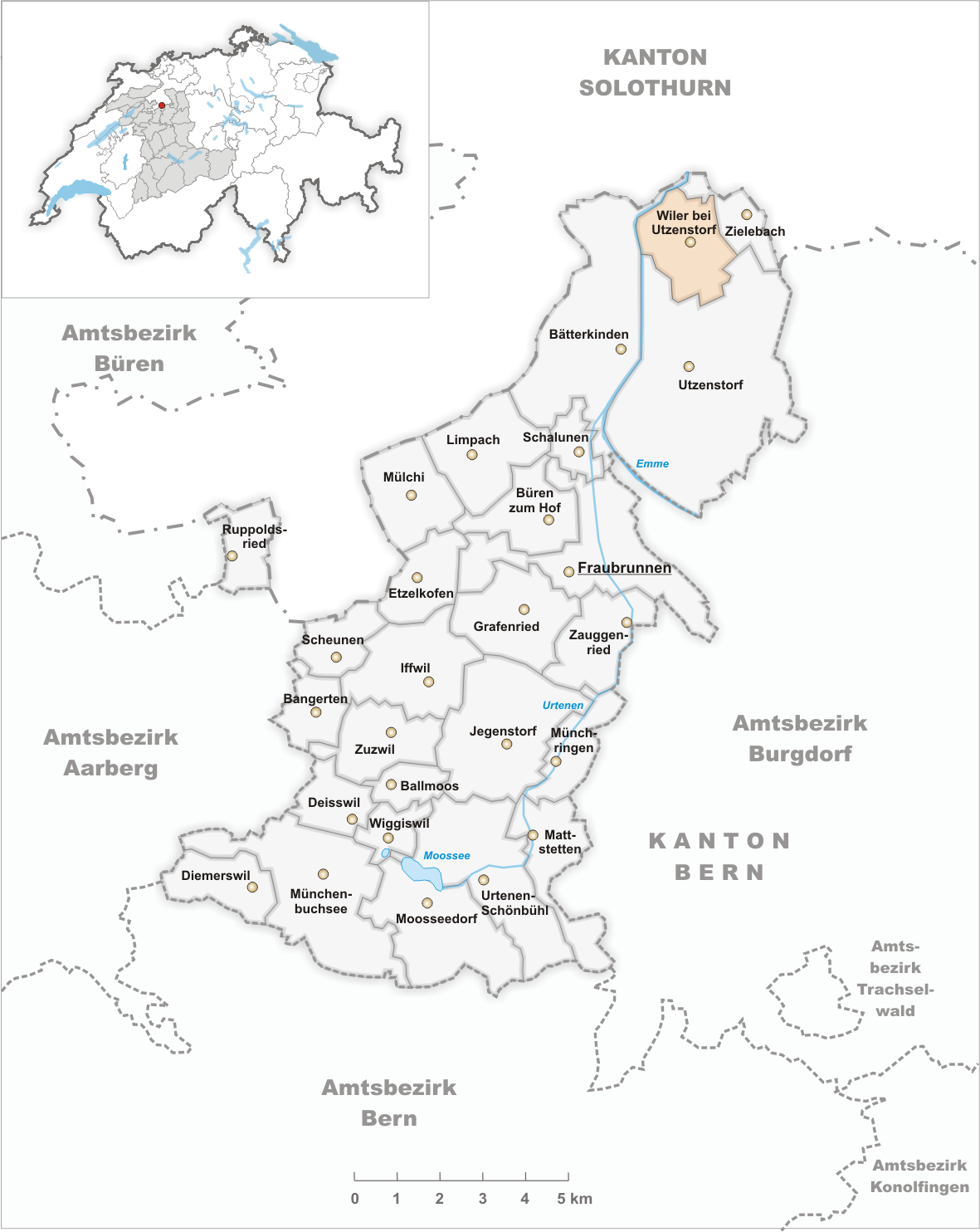 Municipality Wiler bei Utzenstorf